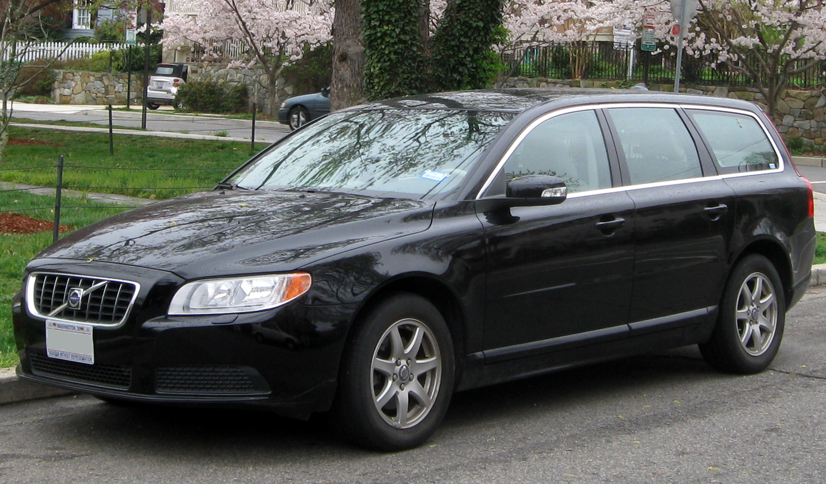 2008-2011 Volvo V70 photographed in Washington, D.C., USA.